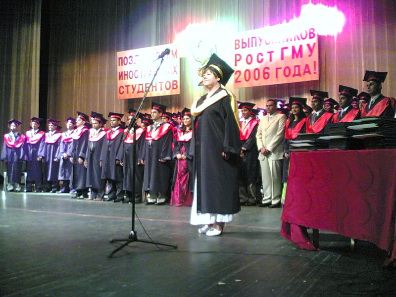 international students faculty